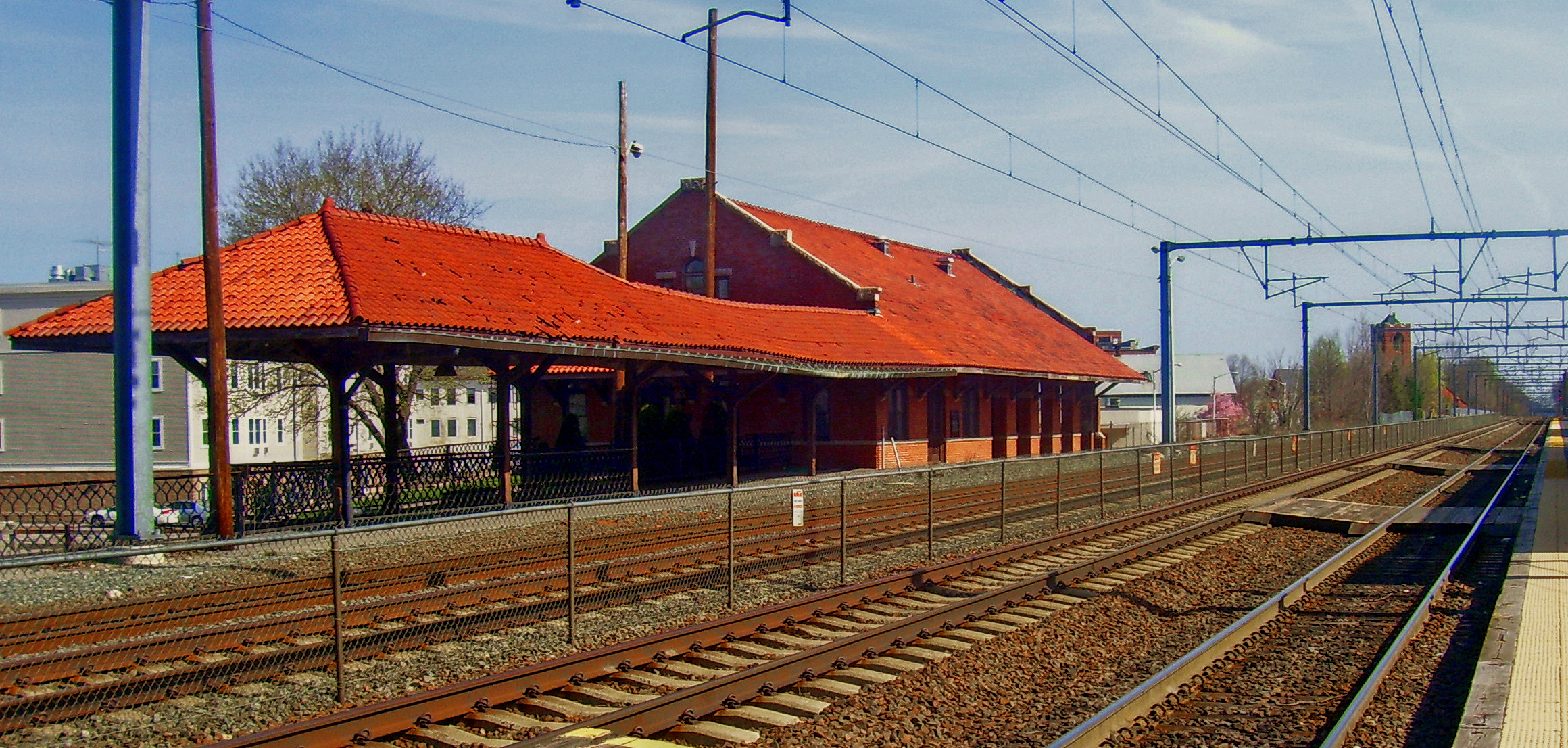 Attleboro, MA, USA train station. Looking north along the Providence/Stoughton Line towards Boston